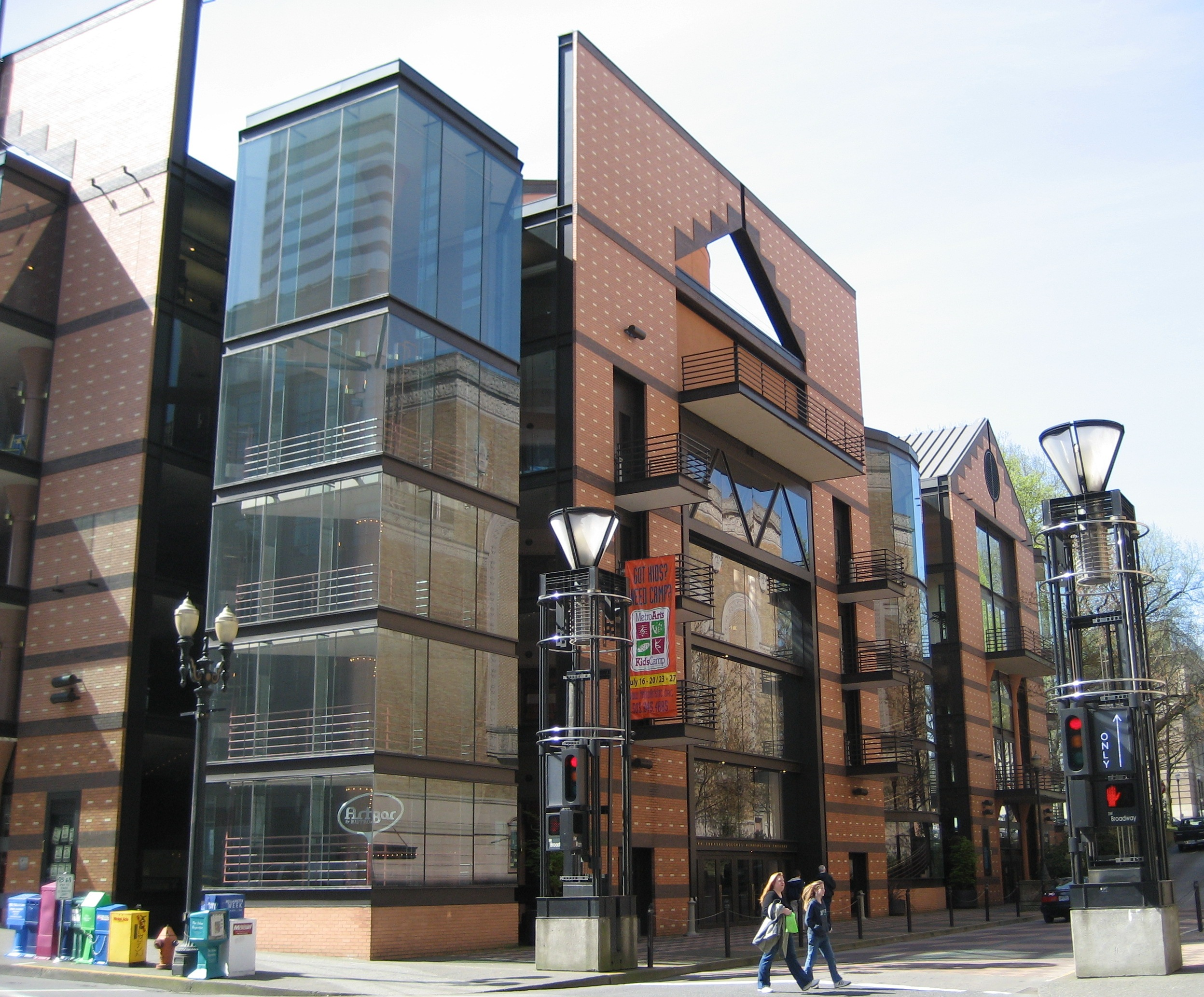 Portland Center for Perfoming Arts's Antoinette Hatfield Hall.